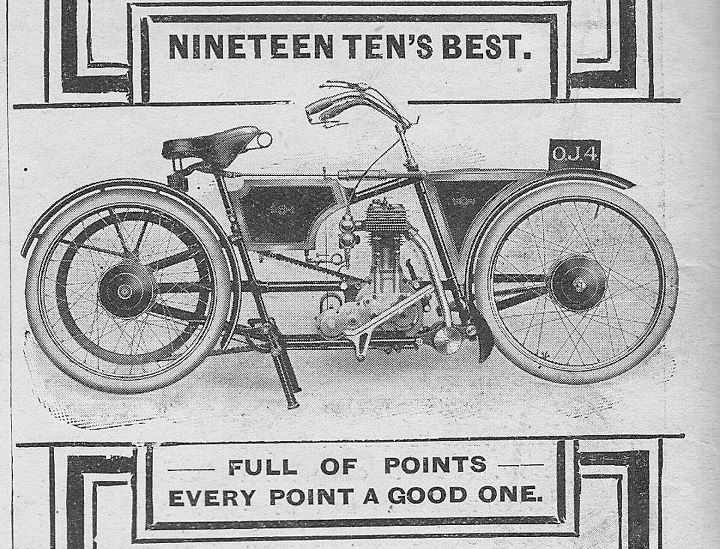 The 1910 "new pattern" James motor cycle with hub centre steering, among other innovations. Image in public domain, over 100 years old.